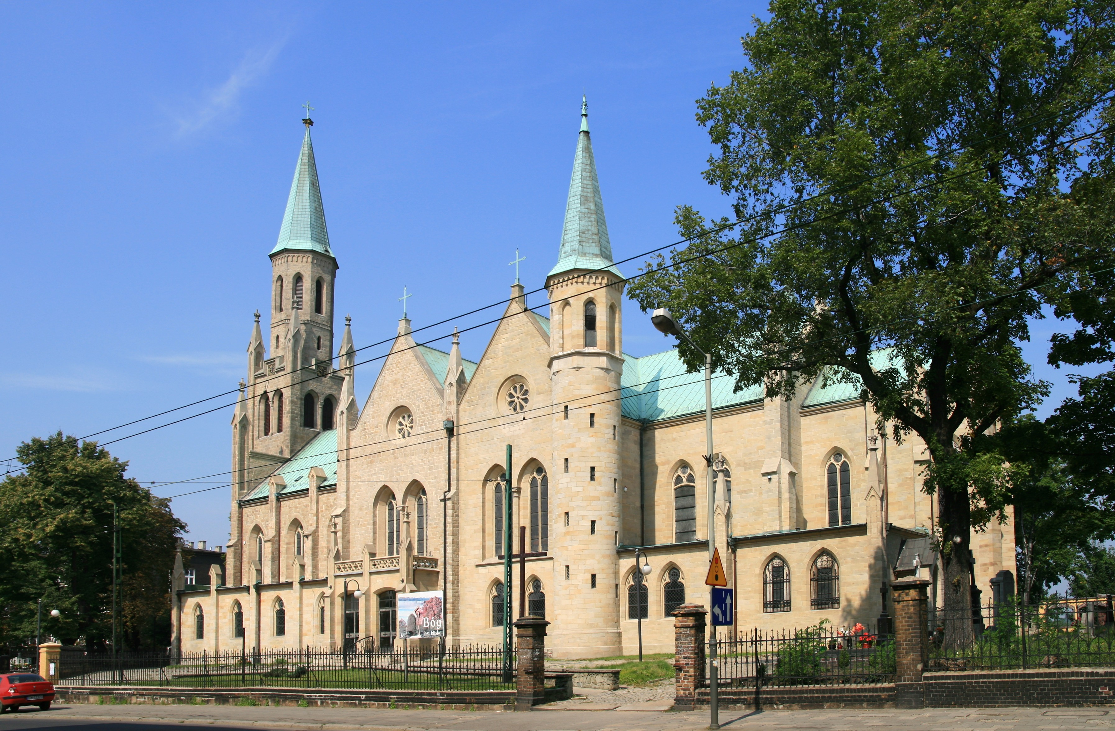 The neogothic church of St. Barbara in Chorzów was errected in 1859 and enlarged from 1876-1877 an from 1894-1896.